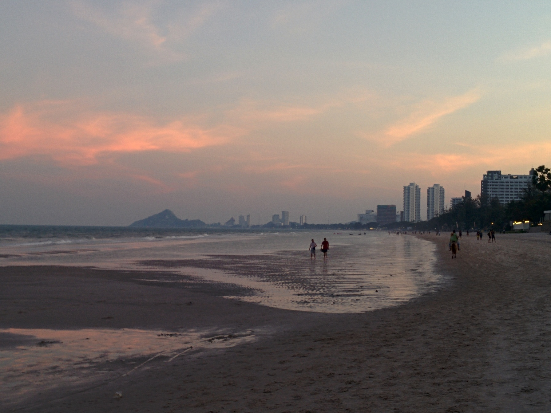 Hua Hin Beach in the evening